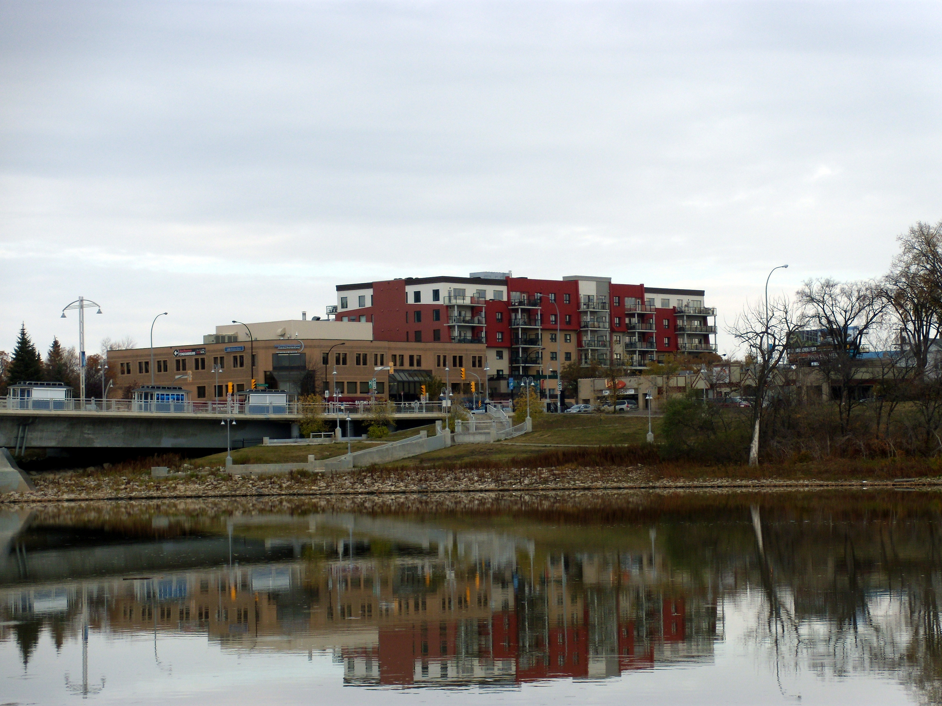 Condominiums in St Boniface, Winnipeg. On Provencher Boulevard, on the east side of the Red River.